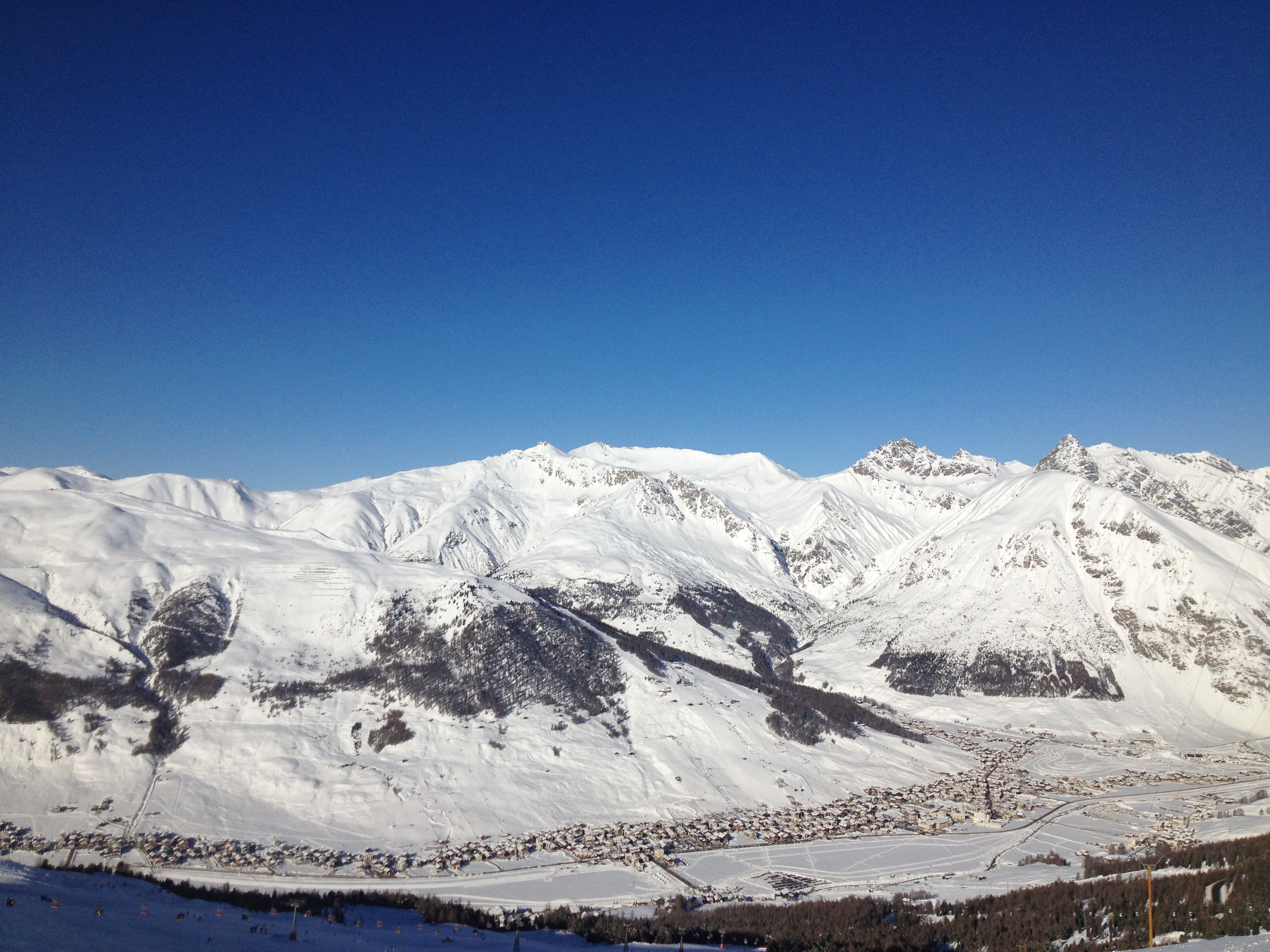 23030 Livigno, Province of Sondrio, Italy